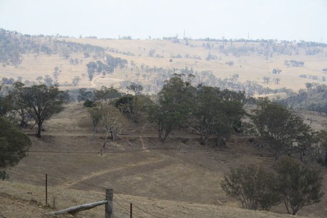 Cox's Road and Early Deviations - Sodwalls, Fish River Descent Precinct